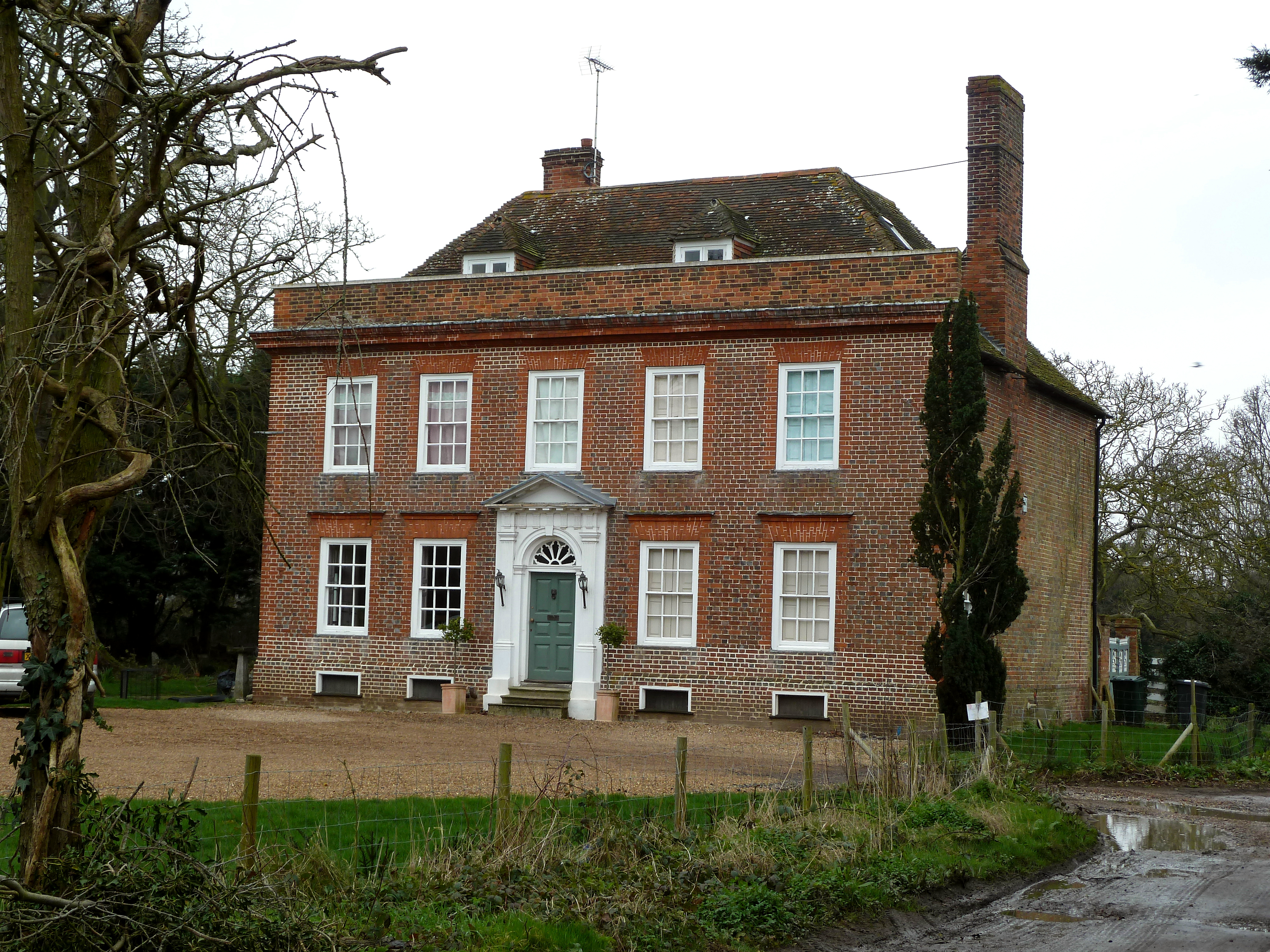 Underdown House in Eddington, Kent, England. This is a listed building described by English Heritage as being L-shaped with a 17th century west wing and an 18th century frontage; it has original casement windows with small leaded panes at the back on the west side and at the west end of the southern frontage.